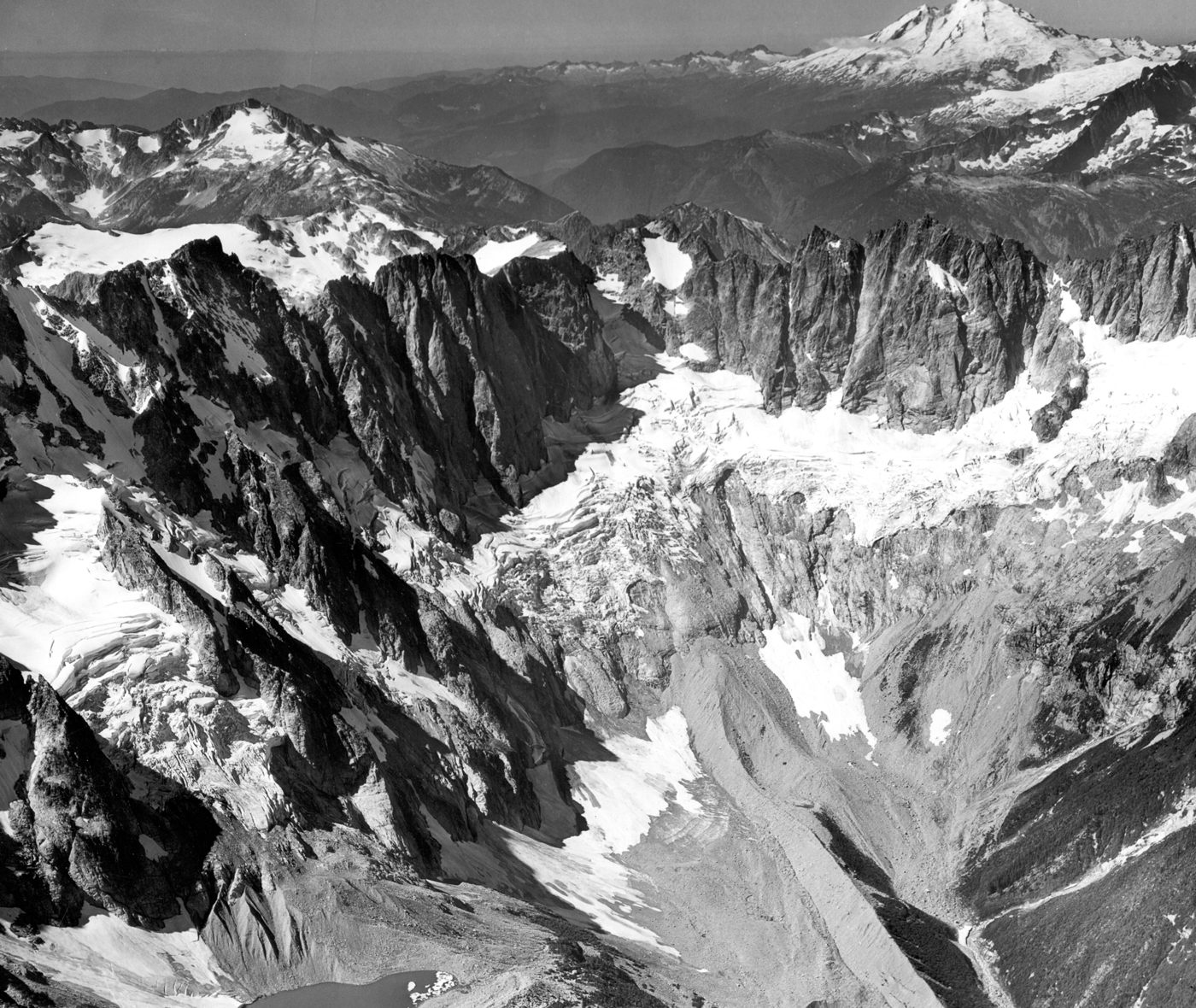 North Cascades National Park, Washington. Glaciers at the head of Luna Creek in Picket Range. Mount Baker in upper right.